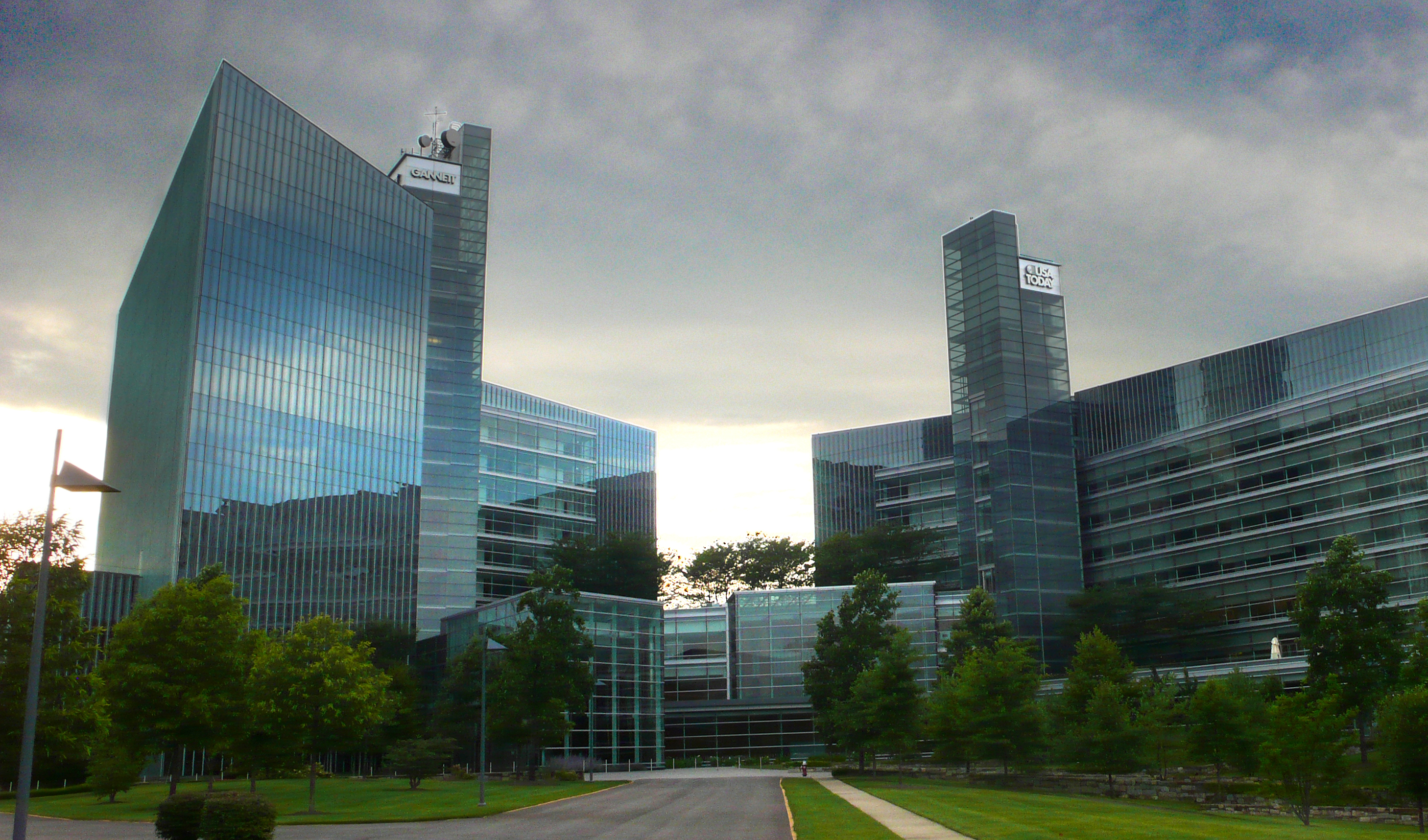 The front view of the USA Today/Gannett Building in McLean, Virginia, headquarters of the largest newspaper in the United States